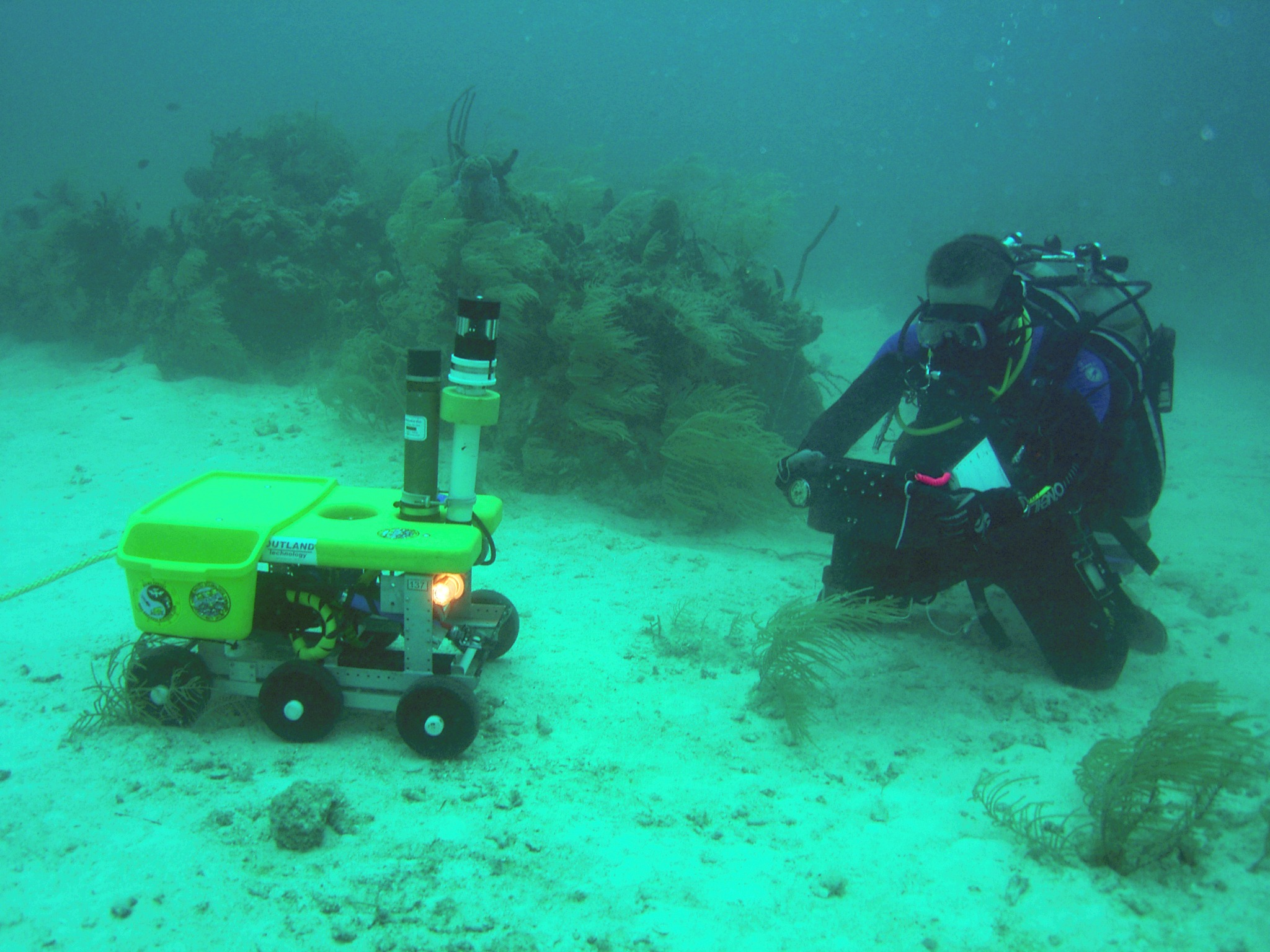 Aquanaut Dr. Timothy J. Broderick of the University of Cincinnati works with a remotely operated vehicle (ROV), called Scuttle, during a session of extravehicular activity (EVA) for the 12th NASA Extreme Environment Mission Operations (NEEMO) mission.